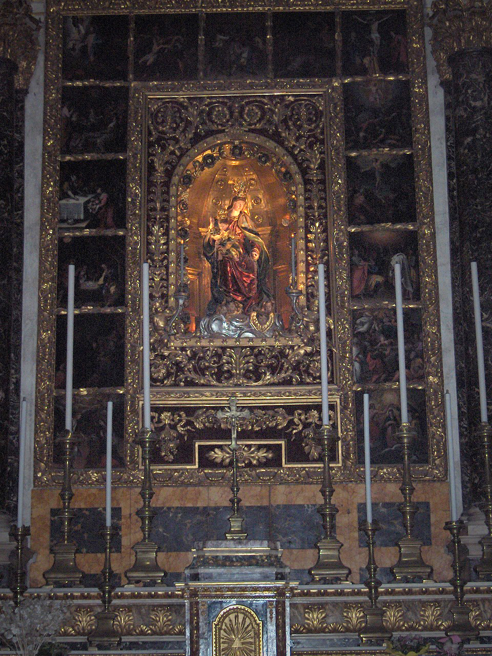 Altar by Floriano Ambrosini (1589) in the Rosary Chapel, Basilica of Saint Dominic, Bologna, Italy